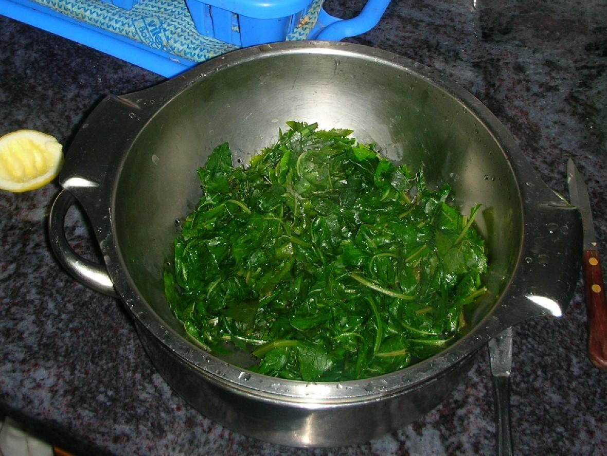 Boiled Sonchus oleraceus and Taraxacum officinale leaves